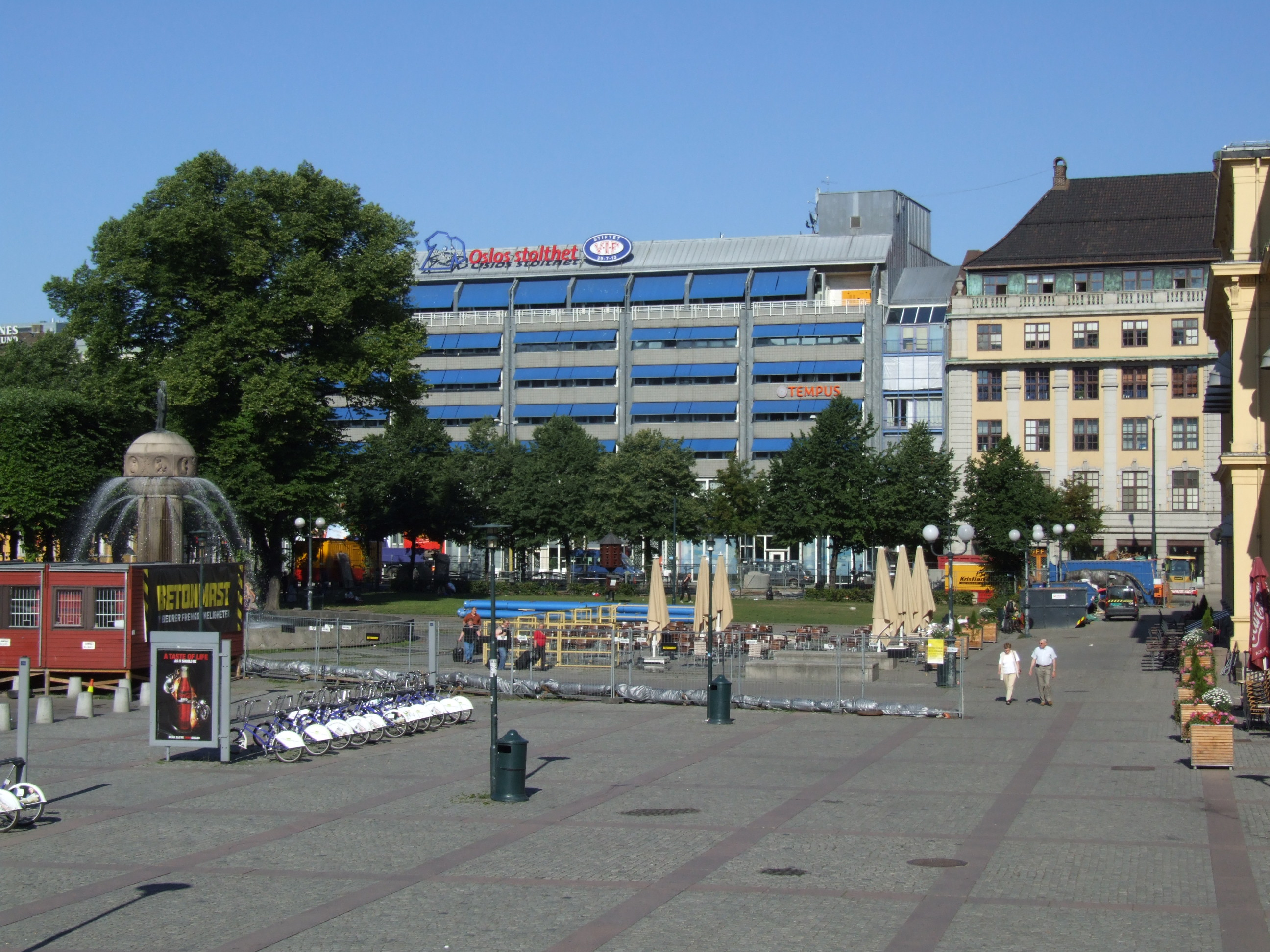 Christian Frederiks plass in Oslo, Norway